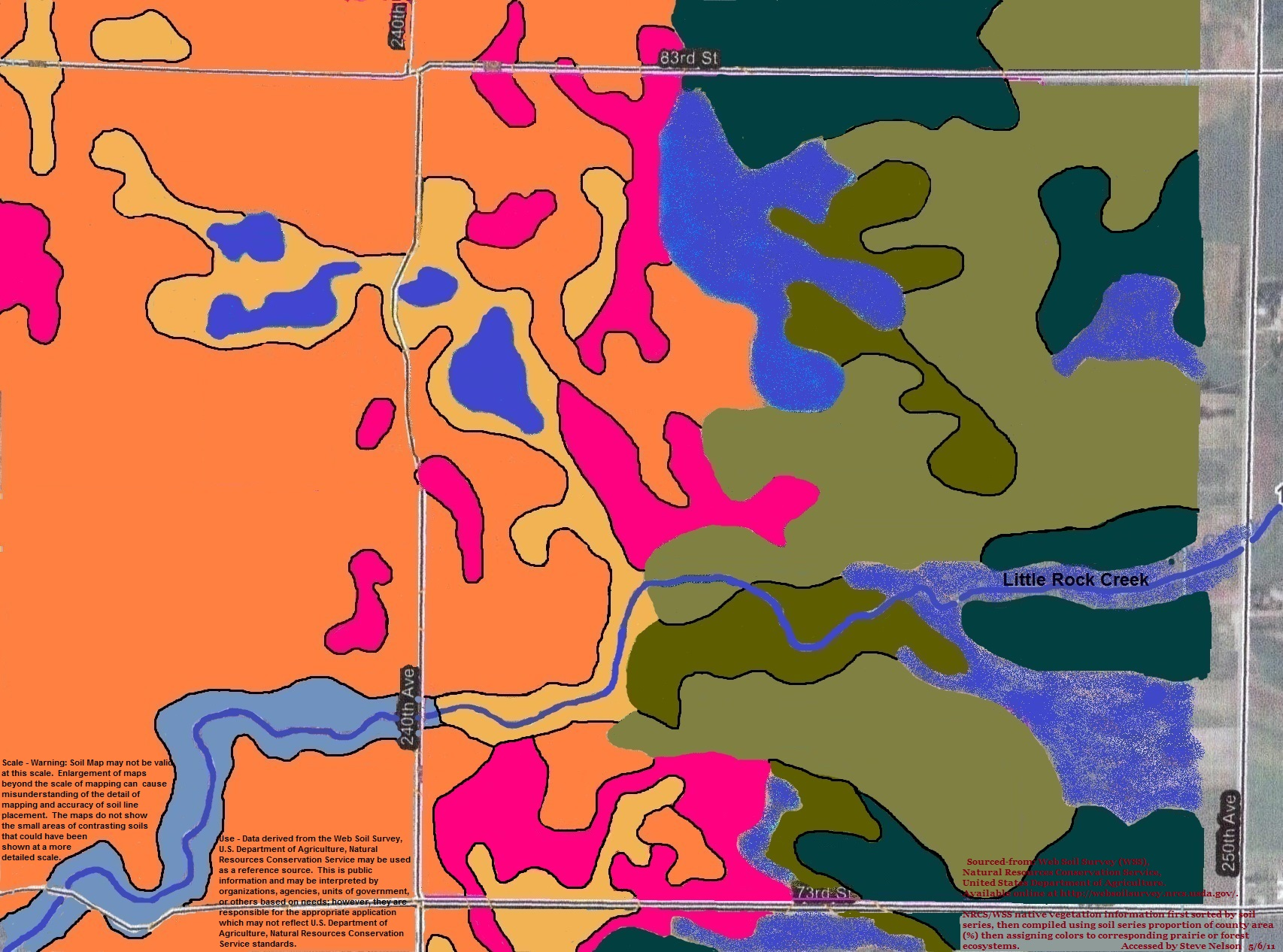 Colored map shows soils of Rice Area Sportsmen's State of Minnesota Wildlife Management Area (WMA) in Morrison County Minnesota. Information to sort native vegetation by soils was sourced-from Web Soil Survey, Natural Resources Conservation Service, United States Department of Agriculture. Accessed by Steve Nelson 5/6/11.